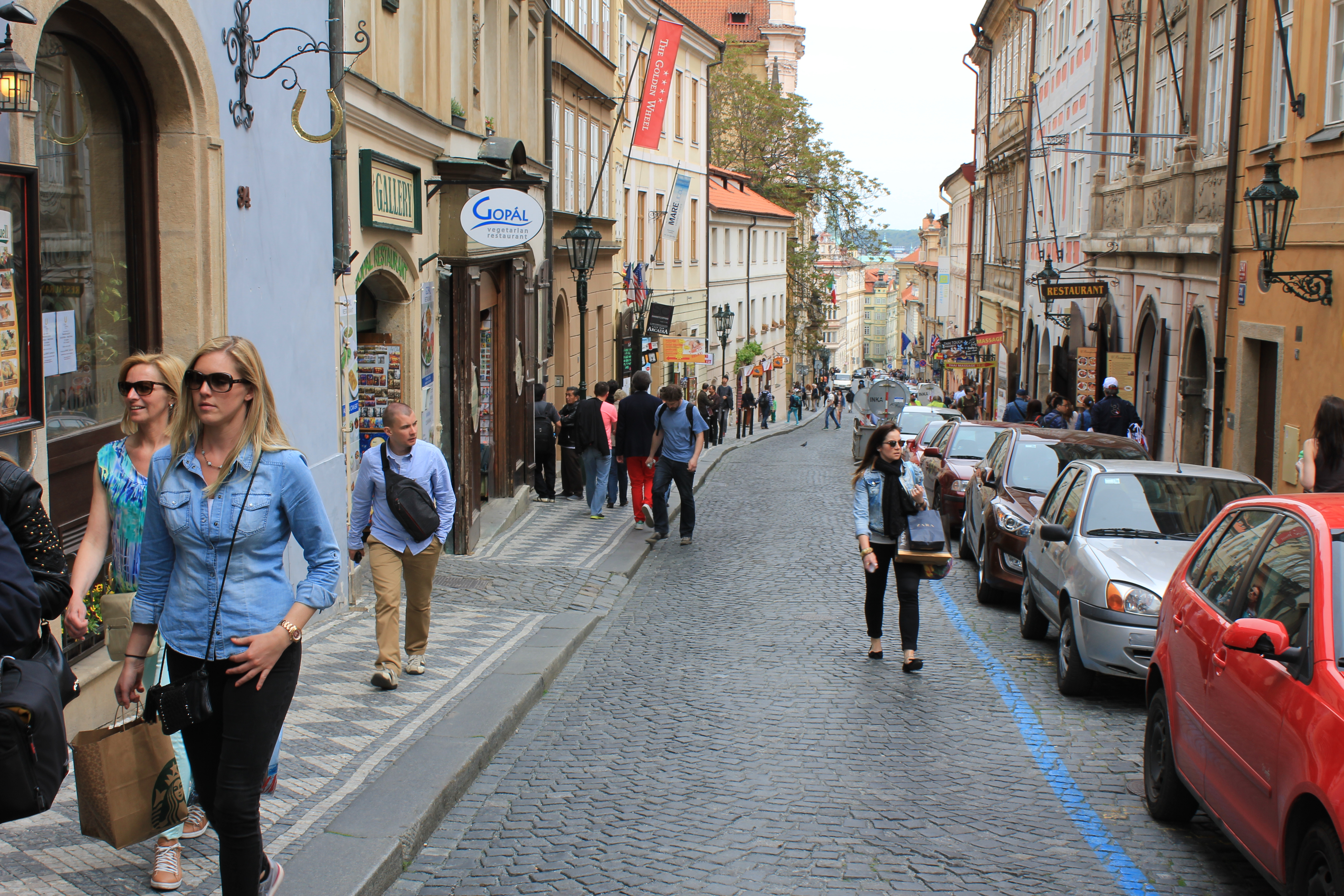 View downward Nerudova Street in Mala Strana